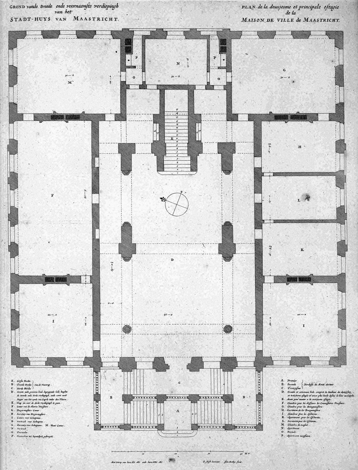 Maastricht, the Netherlands.Ground plan main floor of town hall, by Pieter Post (ca. 1655)